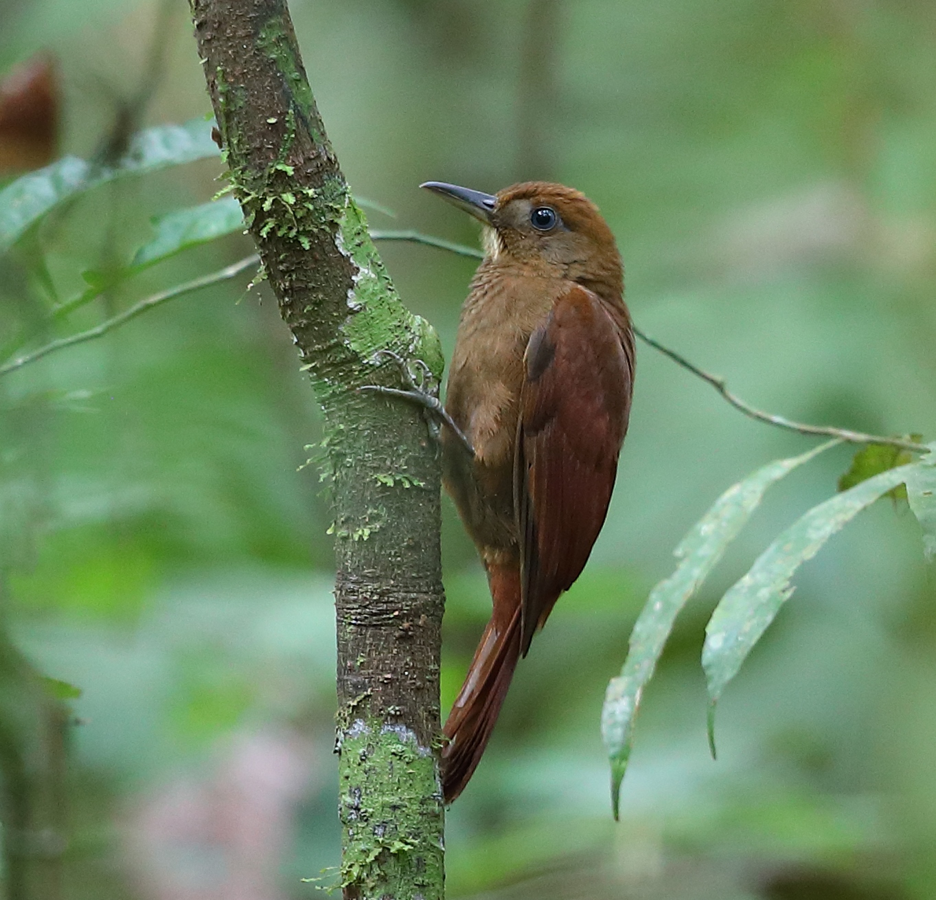 White-chinned Woodcreeper; Tambopata Research Center, Madre de Dios, Perú